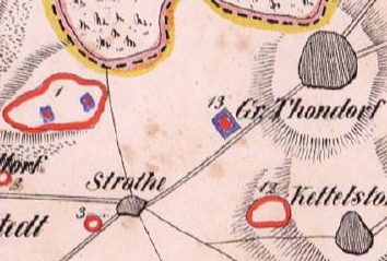 Prehistoric tombs near Strothe